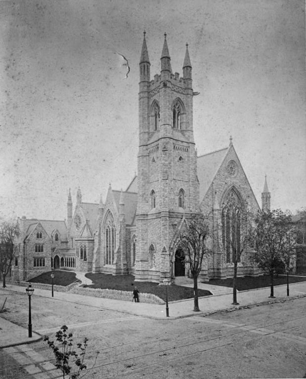 Tabernacle Presbyterian Church, 37th & Chestnut Streets, Philadelphia, Pennsylvania (1884-86), Theophilus P. Chandler, Jr., architect. NOTE: Photocopy of a c.1886 photograph, in the possession of the Presbyterian Historical Society, Philadelphia, Pennsylvania